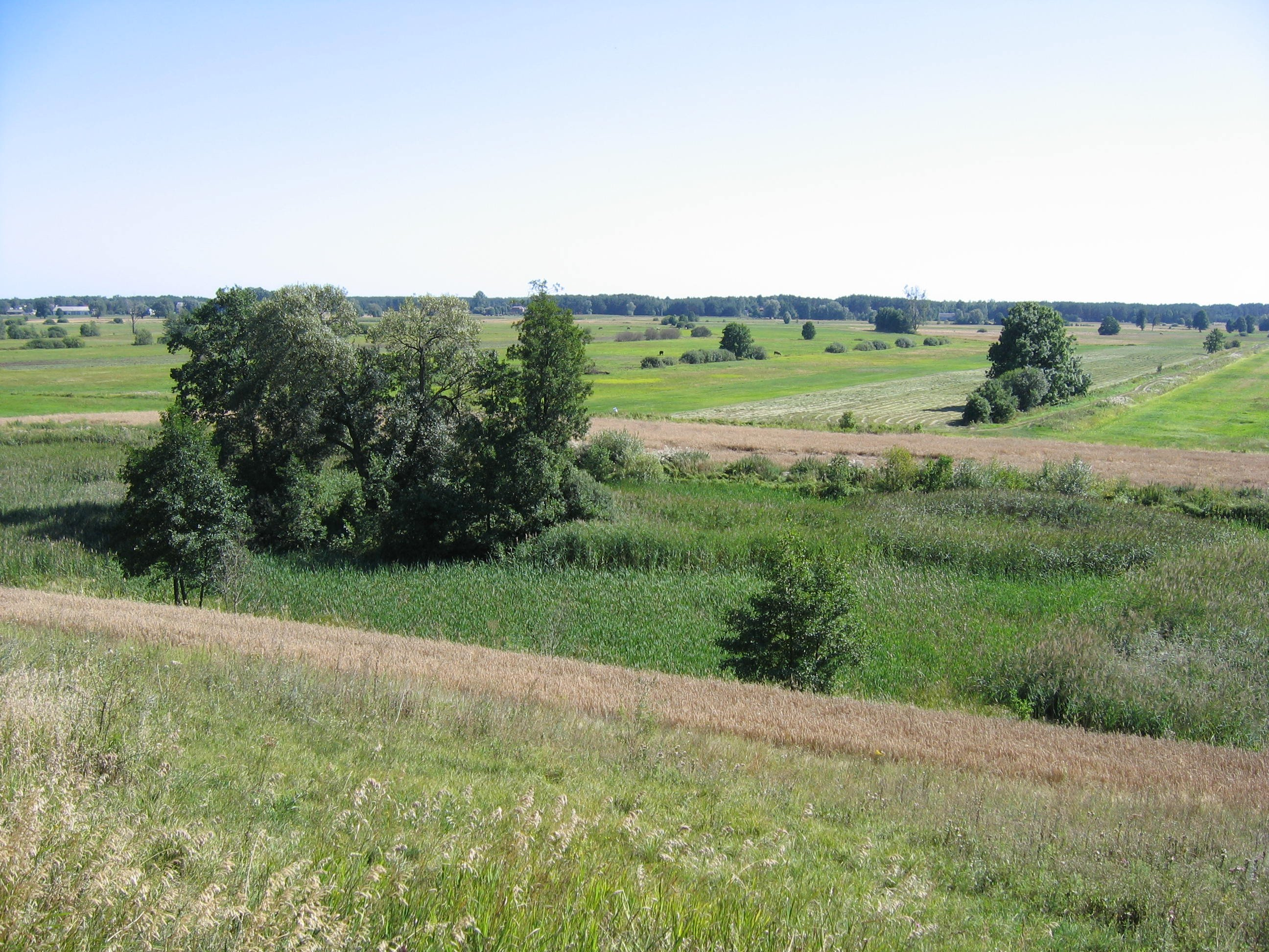 Kręgi in Poland: oxbow lake and meadows, remainings of old Bug river valley. Photo made during bicycle ride in summer 2005. Uploaded with authors permission.